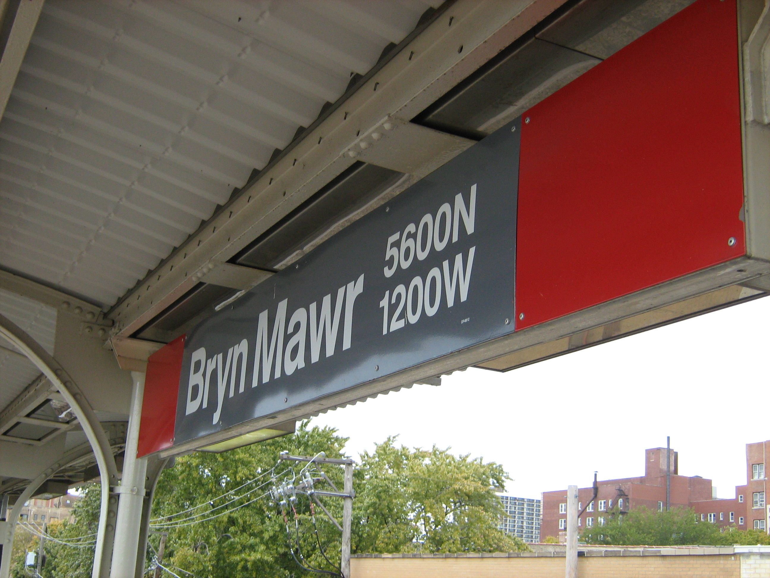 Bryn Mawr Avenue & Broadway 1119 W Bryn Mawr Ave. Chicago, IL 60660 Red Line (North Main Branch)